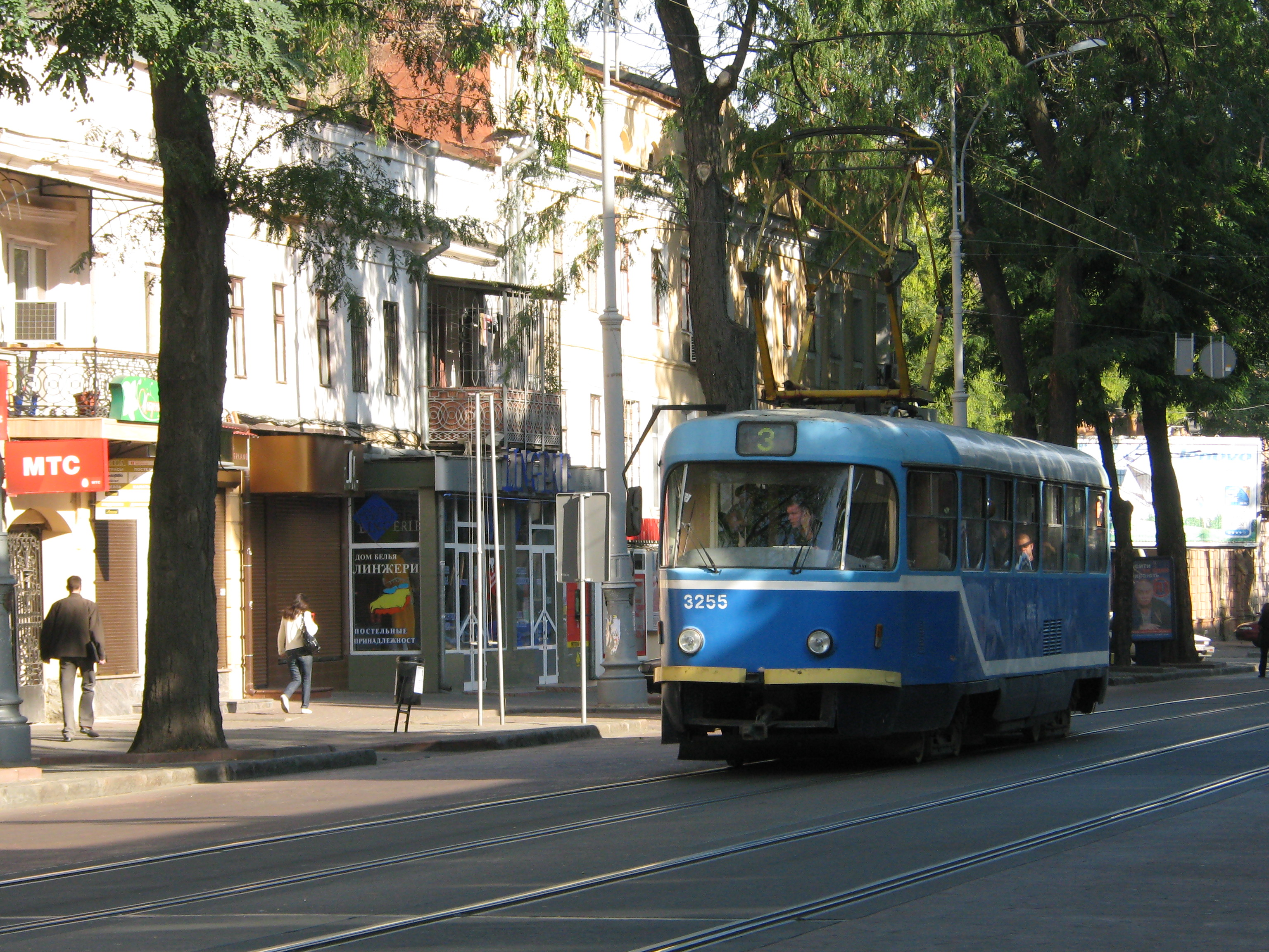 Trams in Odessa